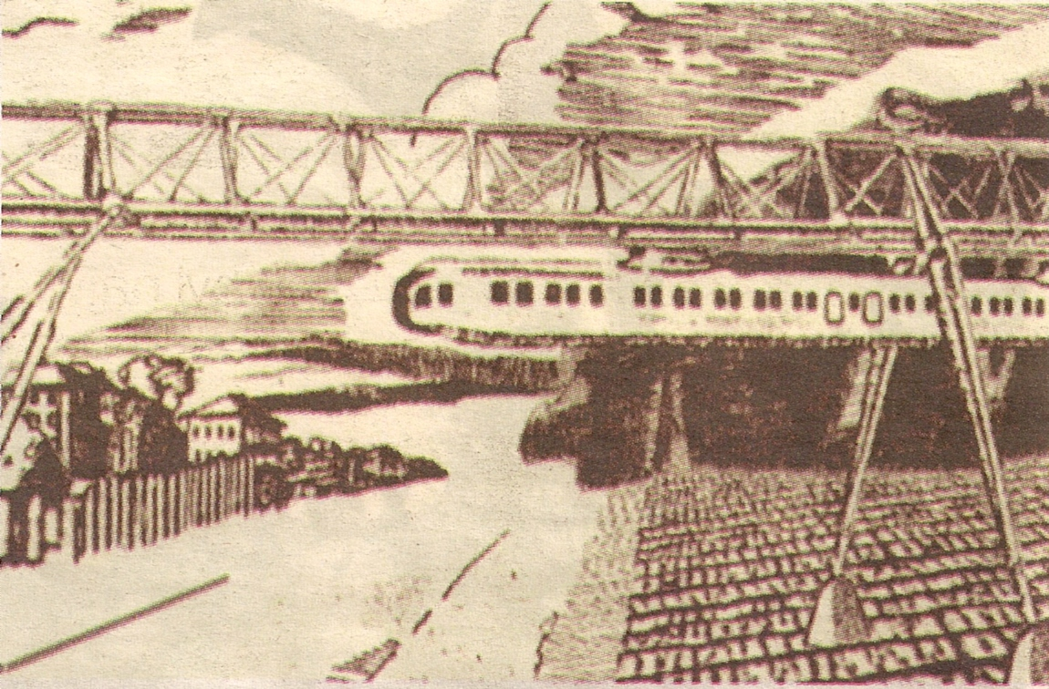 A floating tram for the planned unification of the cities of Gleiwitz, Hindenburg O.S. and Beuthen O.S. Please note: This is an April Fool hoax. Inspired by the Wuppertal Floating Tram.